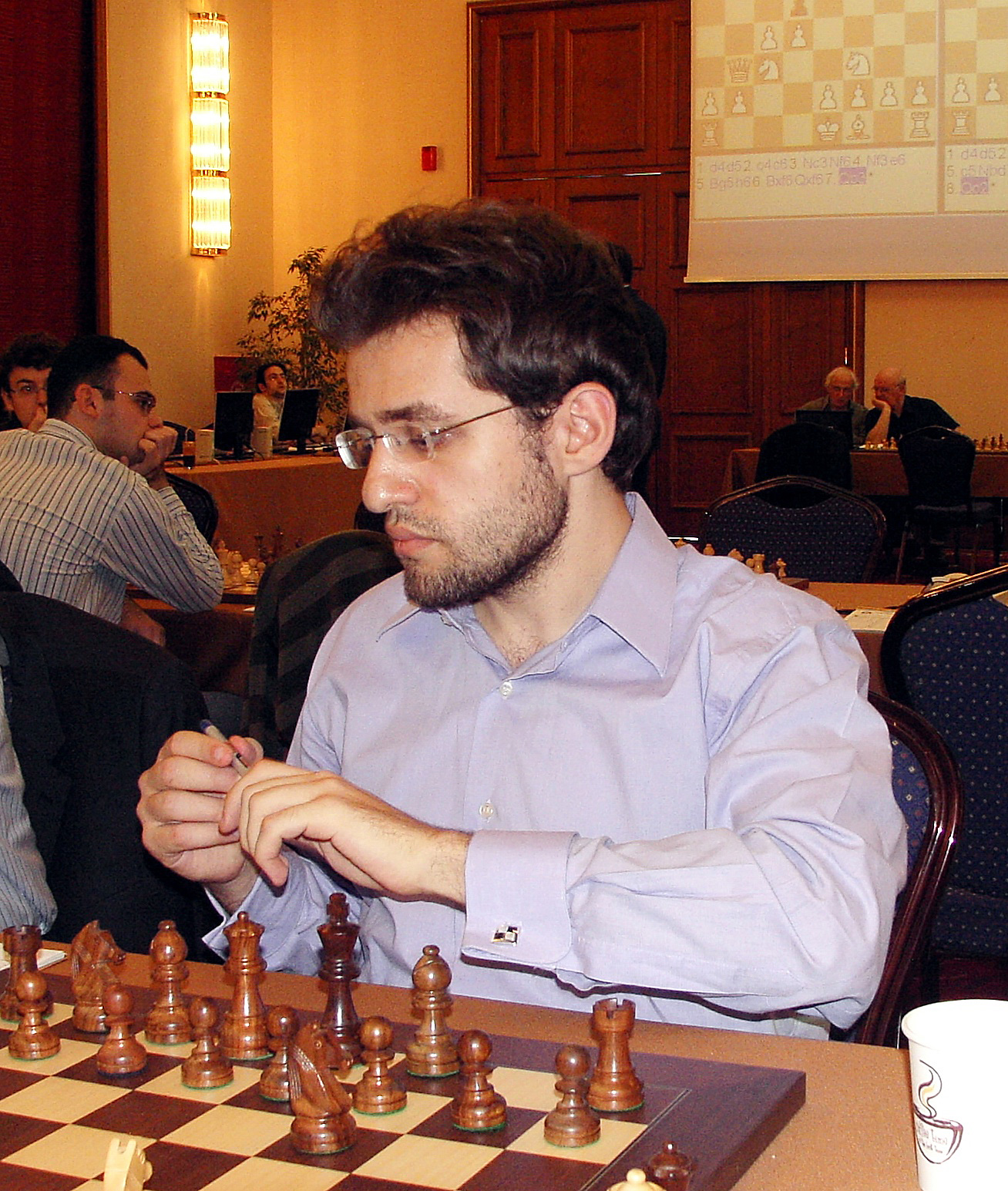 GM Levon Aronian Armenia, EuroChess Iraklion 2007